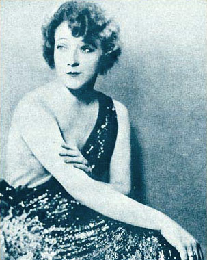 Publicity photo of Claire Whitney from Who's Who on the Screen Claire Whitney was born in New York City and received her education in the public schools of Gotham and at the Wadleigh High School. Her stage experience embraces vaudeville, musical comedy and stock and after gaining much popularity on the legitimate stage she entered the hand of the silent drama in 1909 under the old Biograph banner. "The New York Peacock," "When False Tongues Speak," "Thou Shalt Not Steal," "Camille," "The Man Who Stayed at Home," "The Career of Katherine Bomb" and "Fine Feathers" are some of the many picture plays in which she has appeared. Miss Whitney is five feet four inches high, weighs a hundred and twenty pounds and has blonde hair and brown eyes.